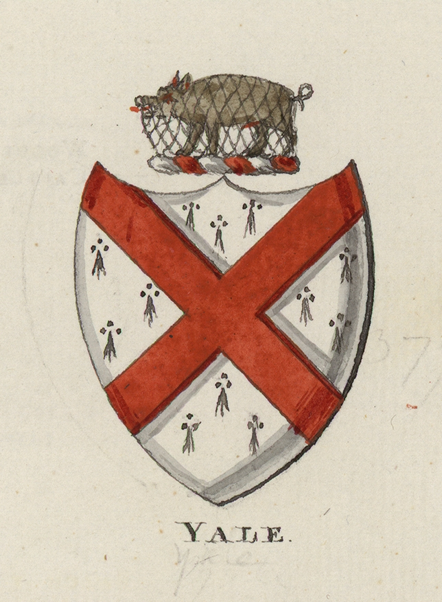 An image from a set of 8 extra-illustrated volumes of A tour in Wales by Thomas Pennant (1726-1798) that chronicle the three journeys he made through Wales between 1773 and 1776. These volumes are unique because they were compiled for Pennant's own library at Downing. This edition was produced in 1781. The volumes include a number of original drawings by Moses Griffiths, Ingleby and other well known artists of the period. Thomas Pennant (1726-1798)